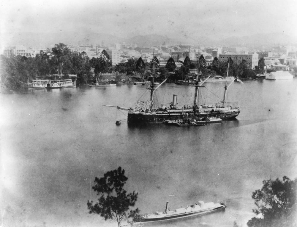 Ships at anchor in the Brisbane River, including the Royal Navy sloop, Egeria The ship in the centre is the Royal Navy sloop, Egeria with a coal barge alongside, and the Mosquito is the small vessel in the foreground. (Description supplied with photograph.).